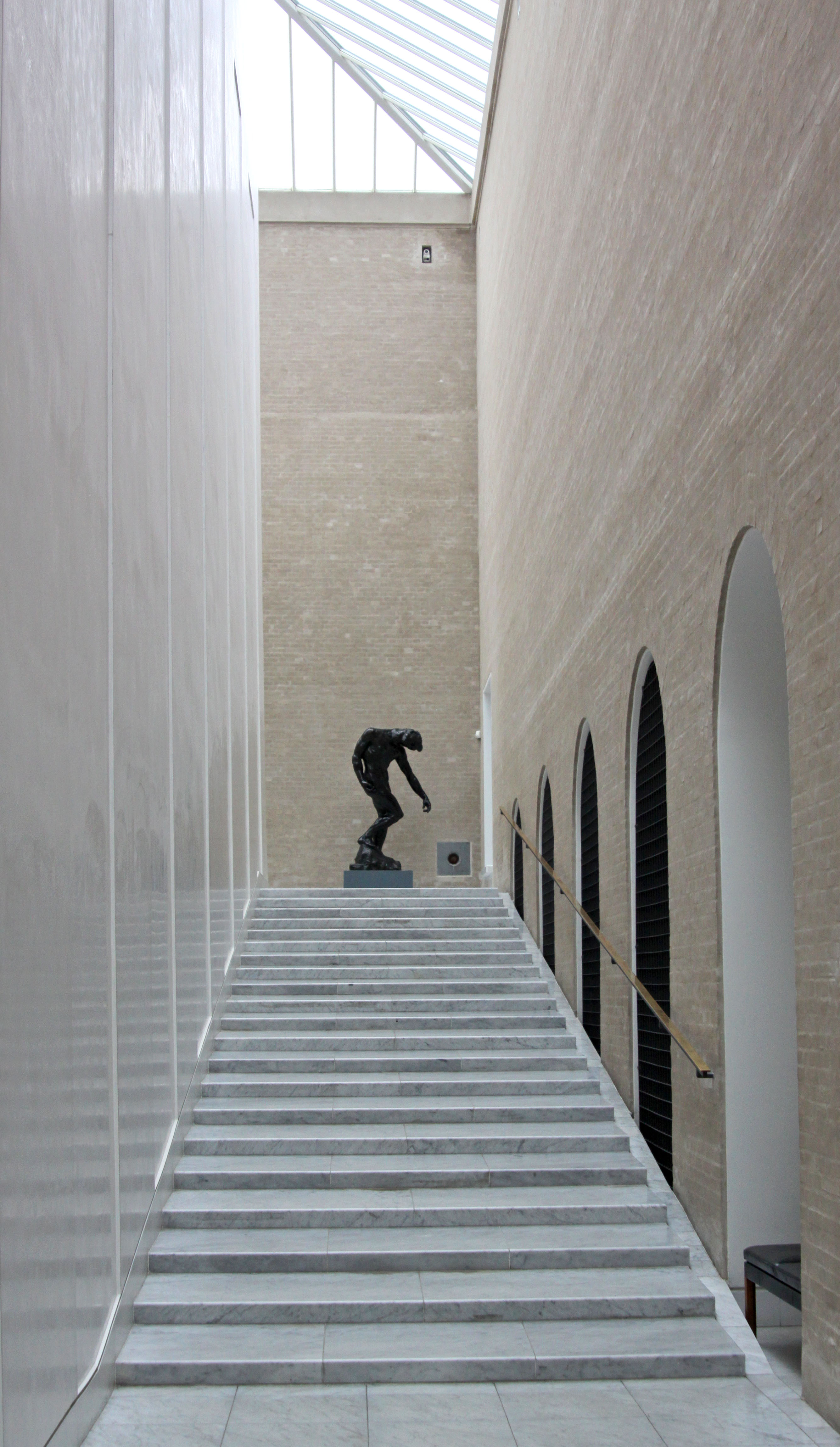 The staircase leading to the Henning Larsen-designed infill wing of the Ny Carlsberg Glyptotek in Copenhagen, Denmark